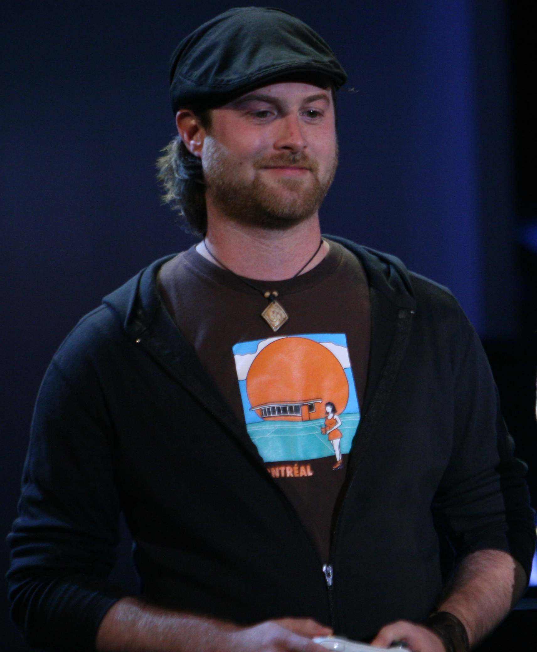 Patrice Désilets at the Electronic Entertainment Expo in 2007.